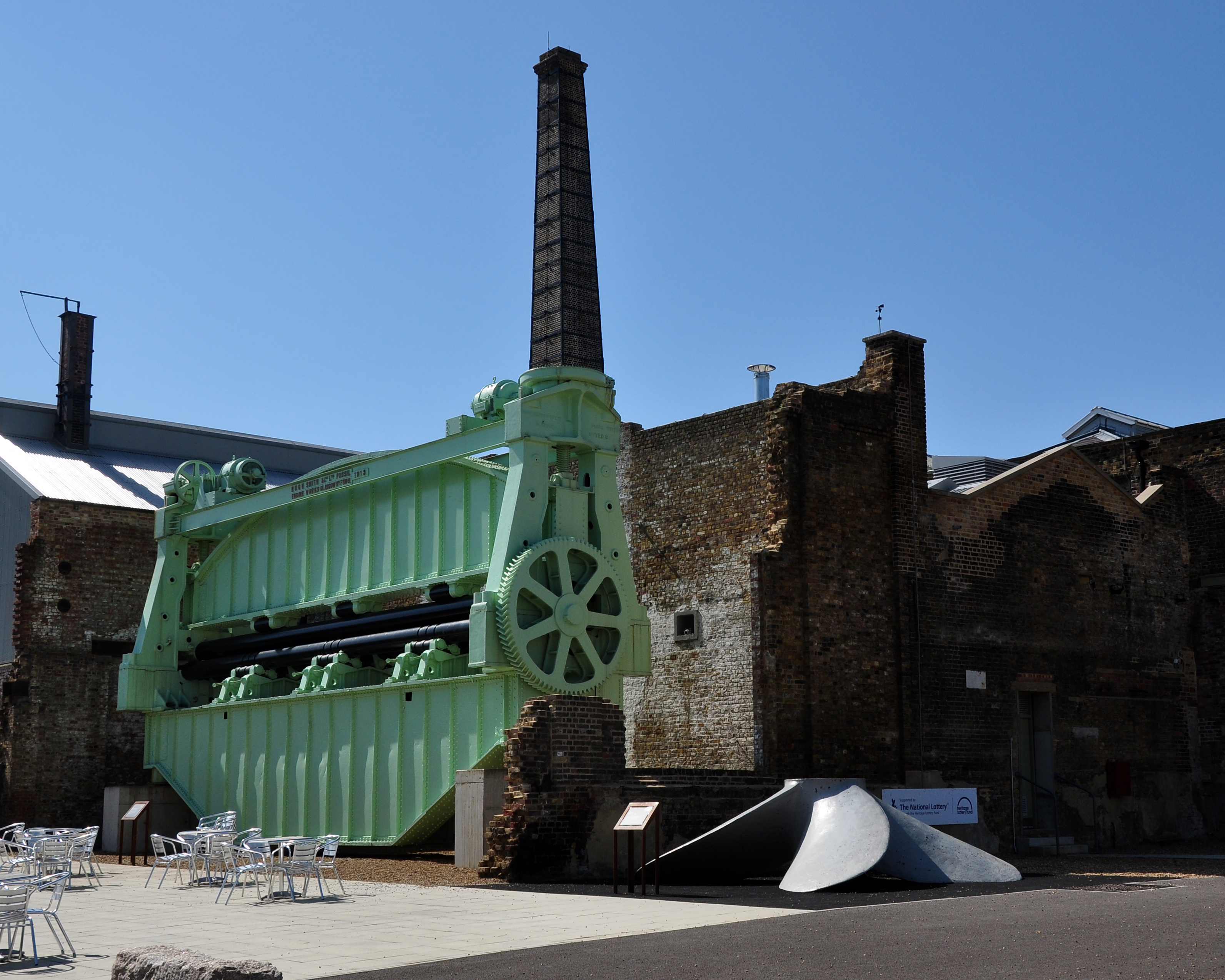 Machinery at Chatham Dockyard, Kent